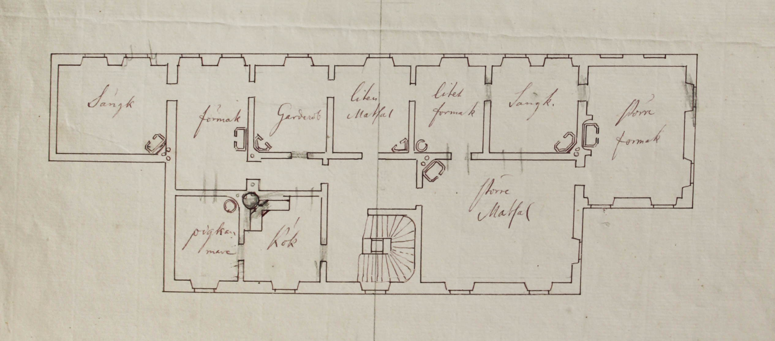 Drawing over Sparre palace, riddarholmen, Stockholm.